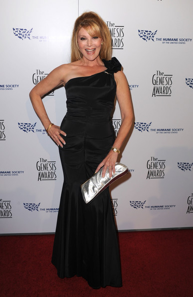 Audrey Landers at the Beverly Hilton Hotel, March 20, 2010 at the 24th Annual Genesis Awards.